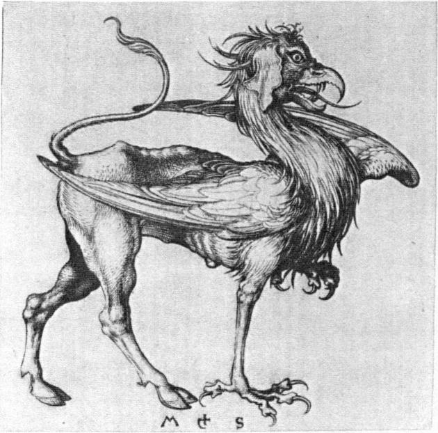 Griffin. Engraving. Location unknown.